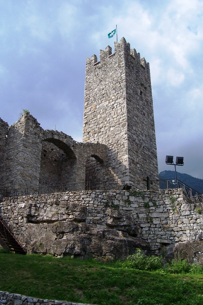 Tower Major in the Castle of Breno, Val Camonica